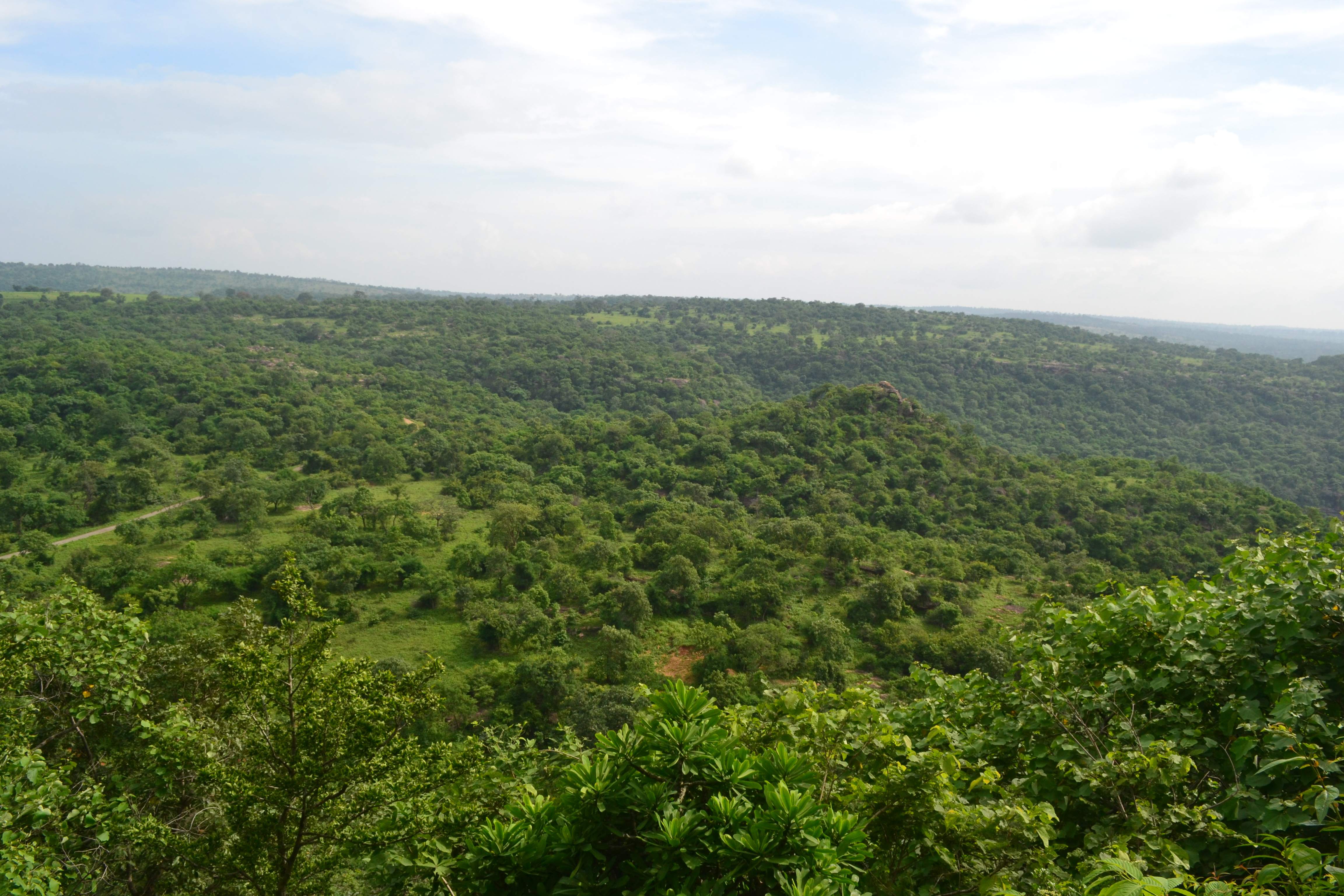 Pakka masonary Fort